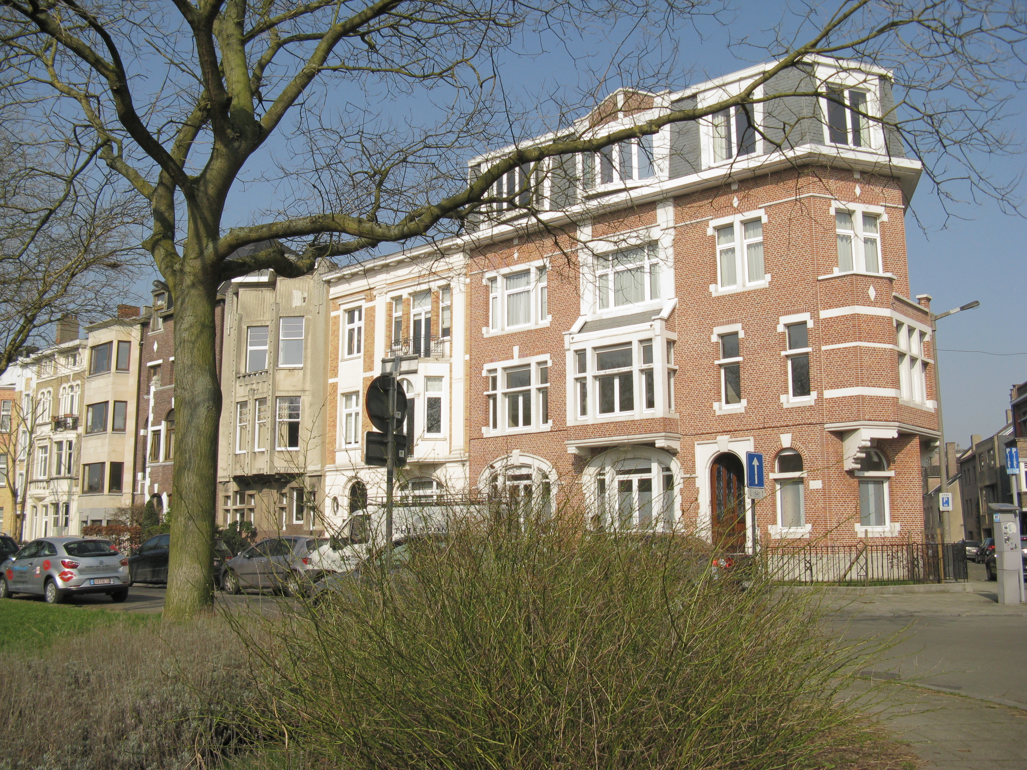 Houses in the Millionaire's Quarter in Ghent, Belgium.